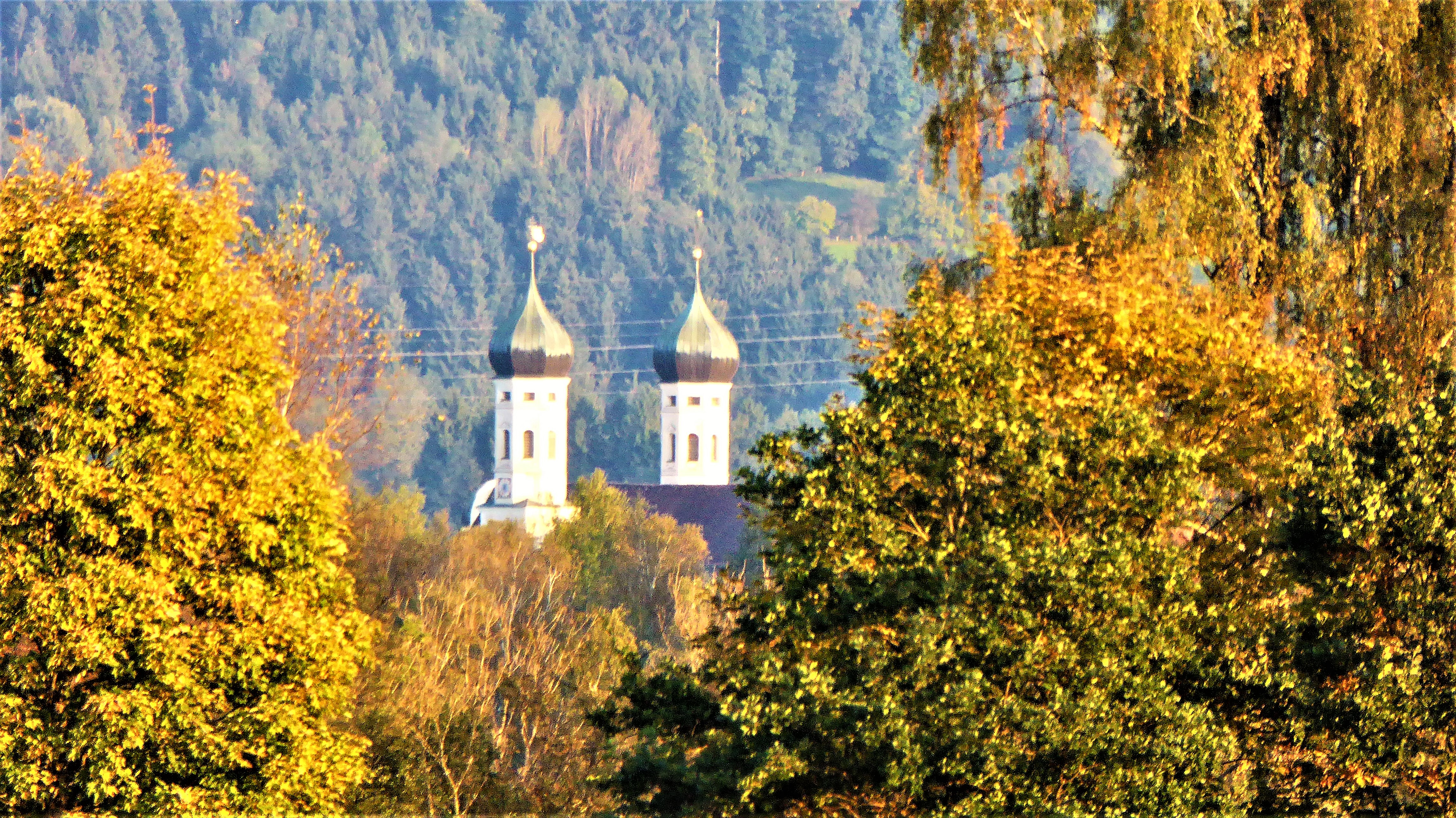 The towers of the monastery Benediktbeuern lure through colourfull trees in fallThis is a photograph of an architectural monument.